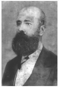 Francisco de Paula Cerqueira Leite, judge of the Brazilian Supreme Court (Supremo Tribunal de Justiça) in the XIX century.